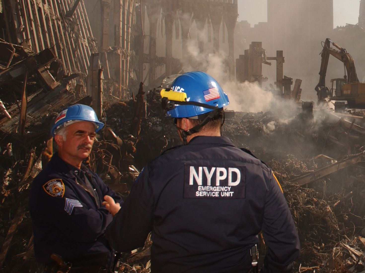 New York City Police Department at the site of the World Trade Center.